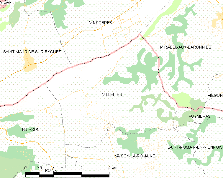 Map of French municipality Villedieu